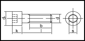 Steelbolt DIN 912